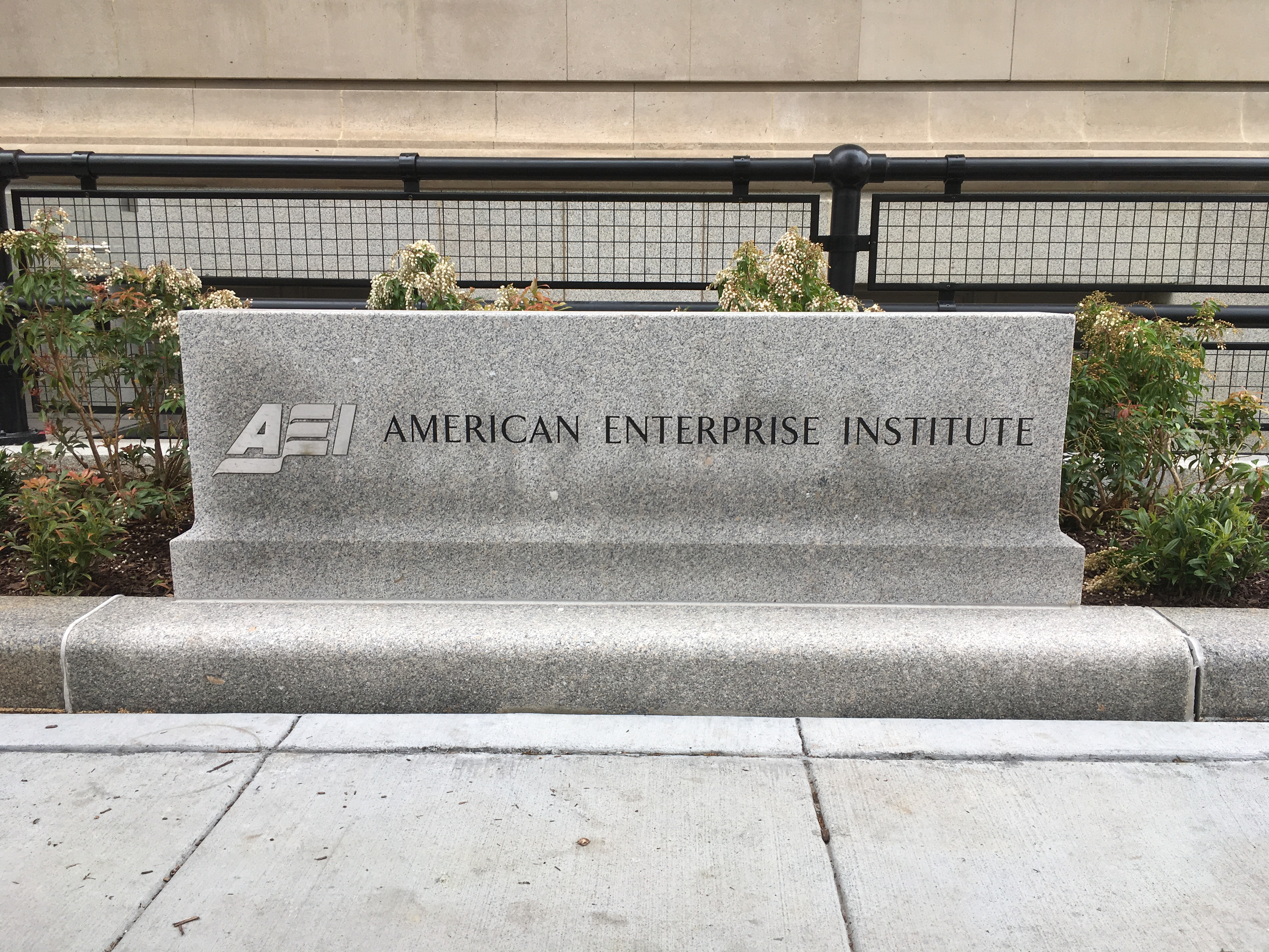 American Enterprise Institute stone